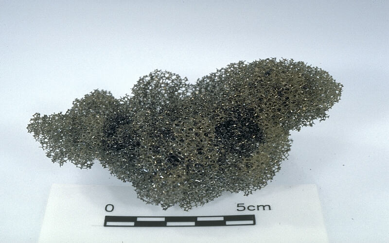 Reticulite from Kilauea Volcano, Hawaii, United States